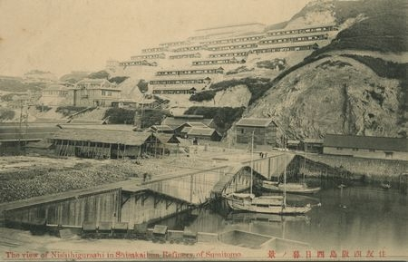 Shisakajima in Ehime Pref.